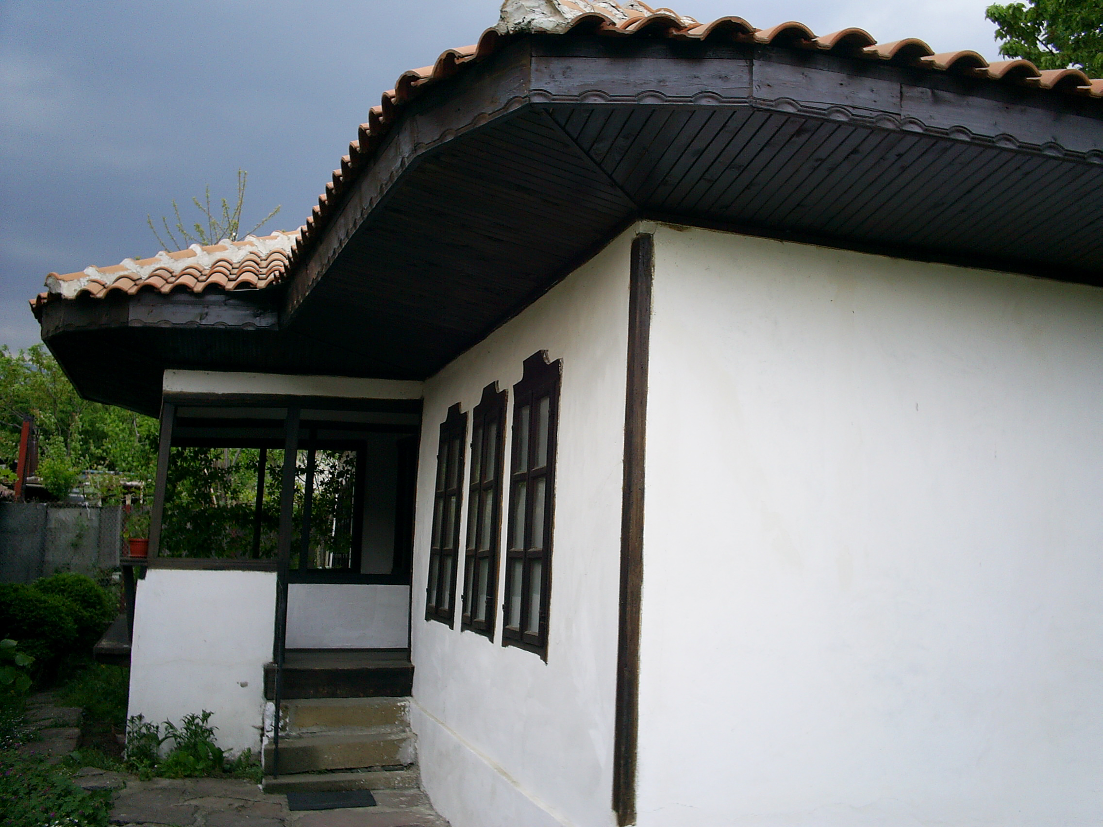 Ethnographic museum in town Berkovitsa, Bulgaria